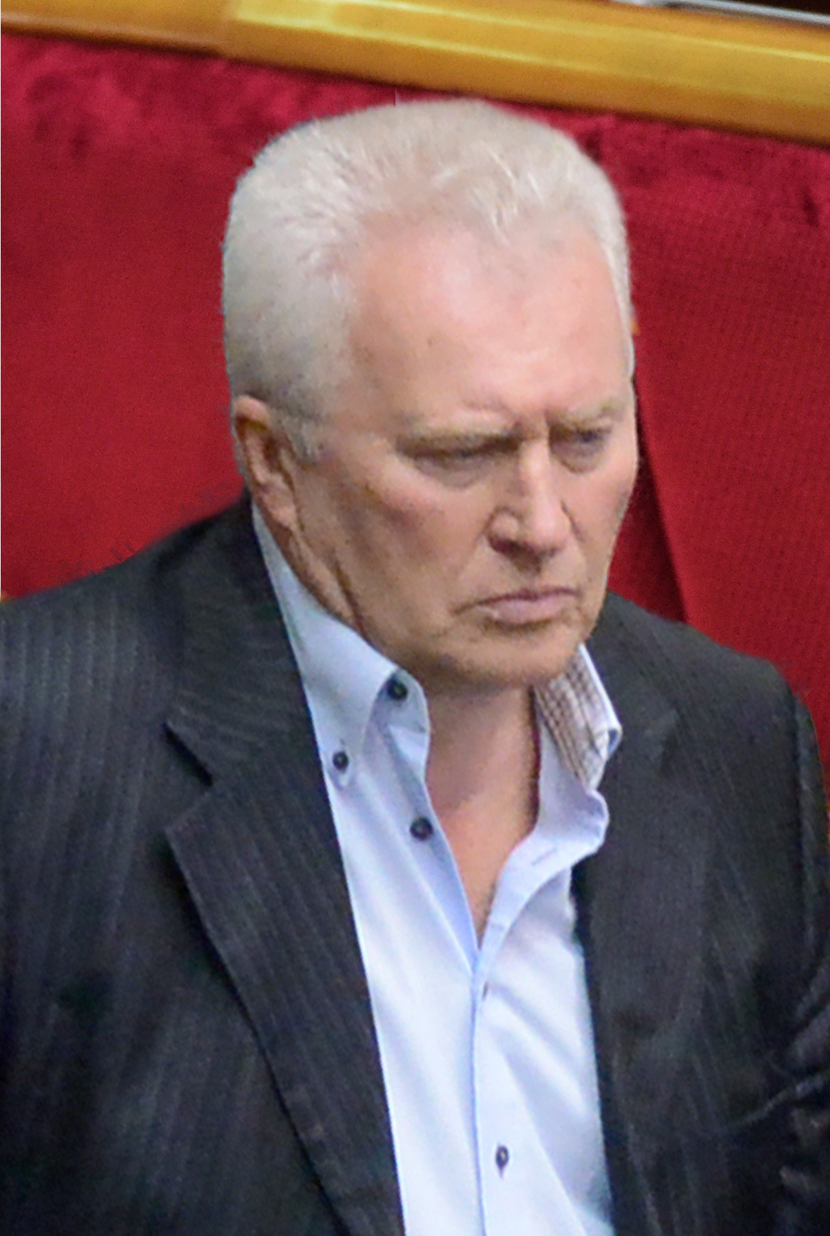 Kornatskyi Arkadii